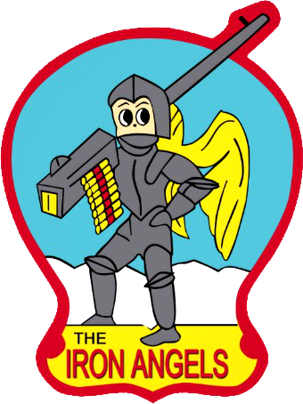 Emblem of the U.S. Navy Fighter Squadron 53 (VF-53) "Iron Angels".